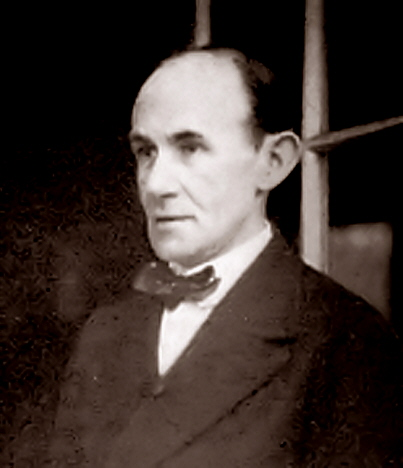 Augustus Daniel Imms FRS. Leading author on entomological topics